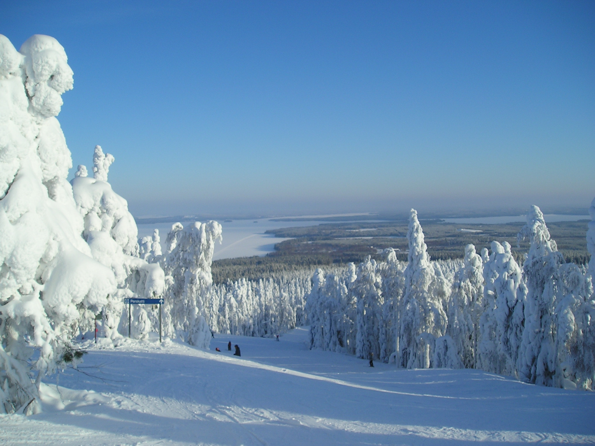 Slope in Vuokatti ski resort, Sotkamo, Finland.